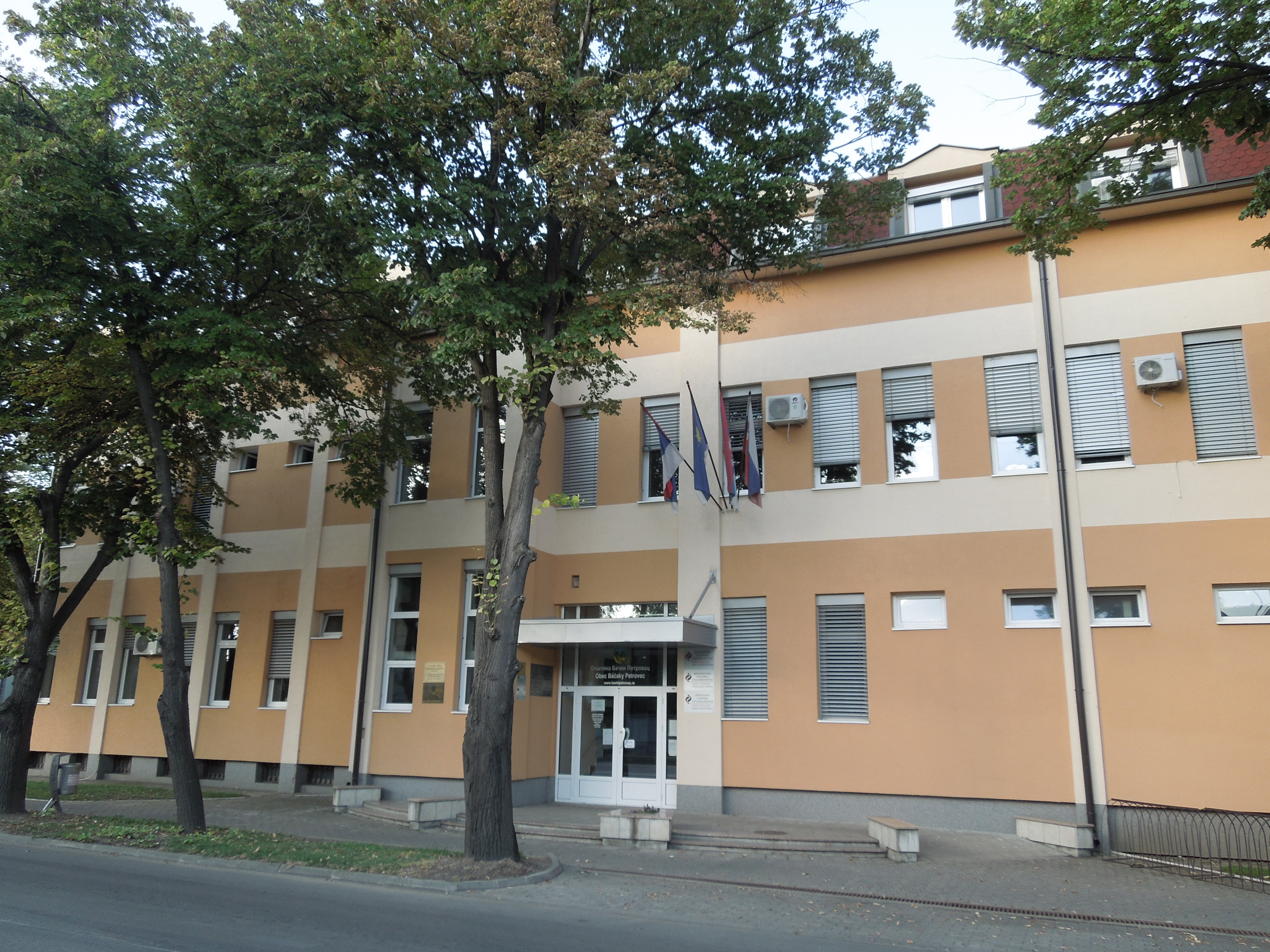 The municipal administration of the Municipality of Backi Petrovac.